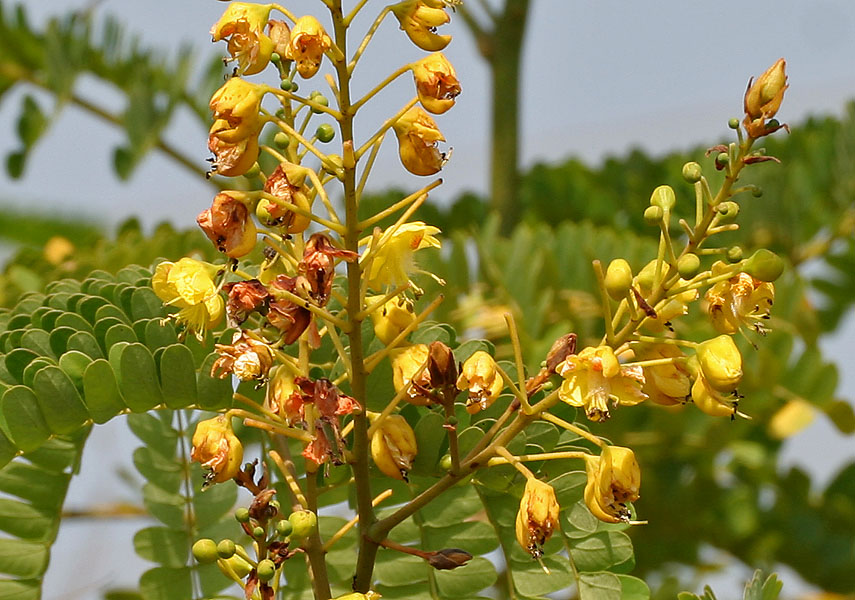 Caesalpinia sappan L. (syn. Biancaea sappan (L.)Tod.)- Sappanwood, Sapanwood, Bukkum-wood, Bois Sappan, Gangoor, Caesalpinia Sappan, Patamg, Bakam, Suou (Japanese); Burmese (teing-nyet); English (false sandalwood, Indian brazilwood, Indian redwood); Filipino (sapang, sibukao); French (bois de sappan,sappan); Hindi (bokmo, bakan, patungam, vakum, vakam, patunga); Indonesian (soga jawa, secang, kayu sekang, kayu cang); Javanese (soga jawa); Lao (Sino-Tibetan) (fang deeng, faang); Malay (sepang); Thai (ngaai, faang, fang som); Trade name (sappan lignum, brazilin, sappanwood); Vietnamese (tô môc,hang nhuôm)- in Herbal Garden, in Rangareddy district of Andhra Pradesh, India.